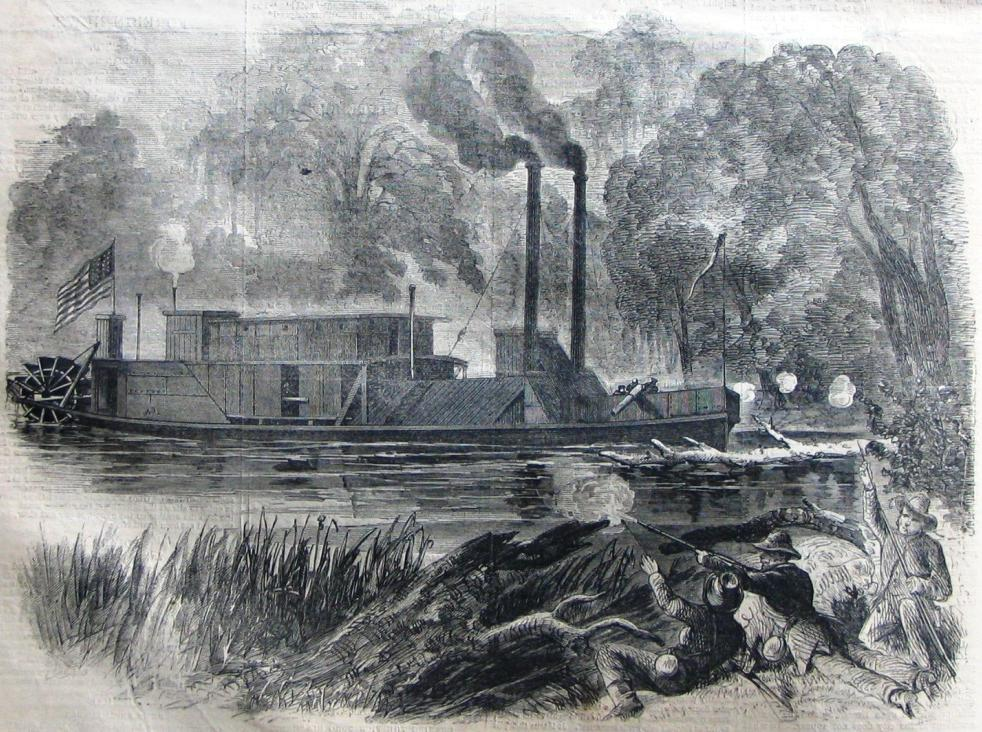 The Iron-clad "Barrataria" Snagged in Amite River, La., and Attacked by Rebel Guerrillas